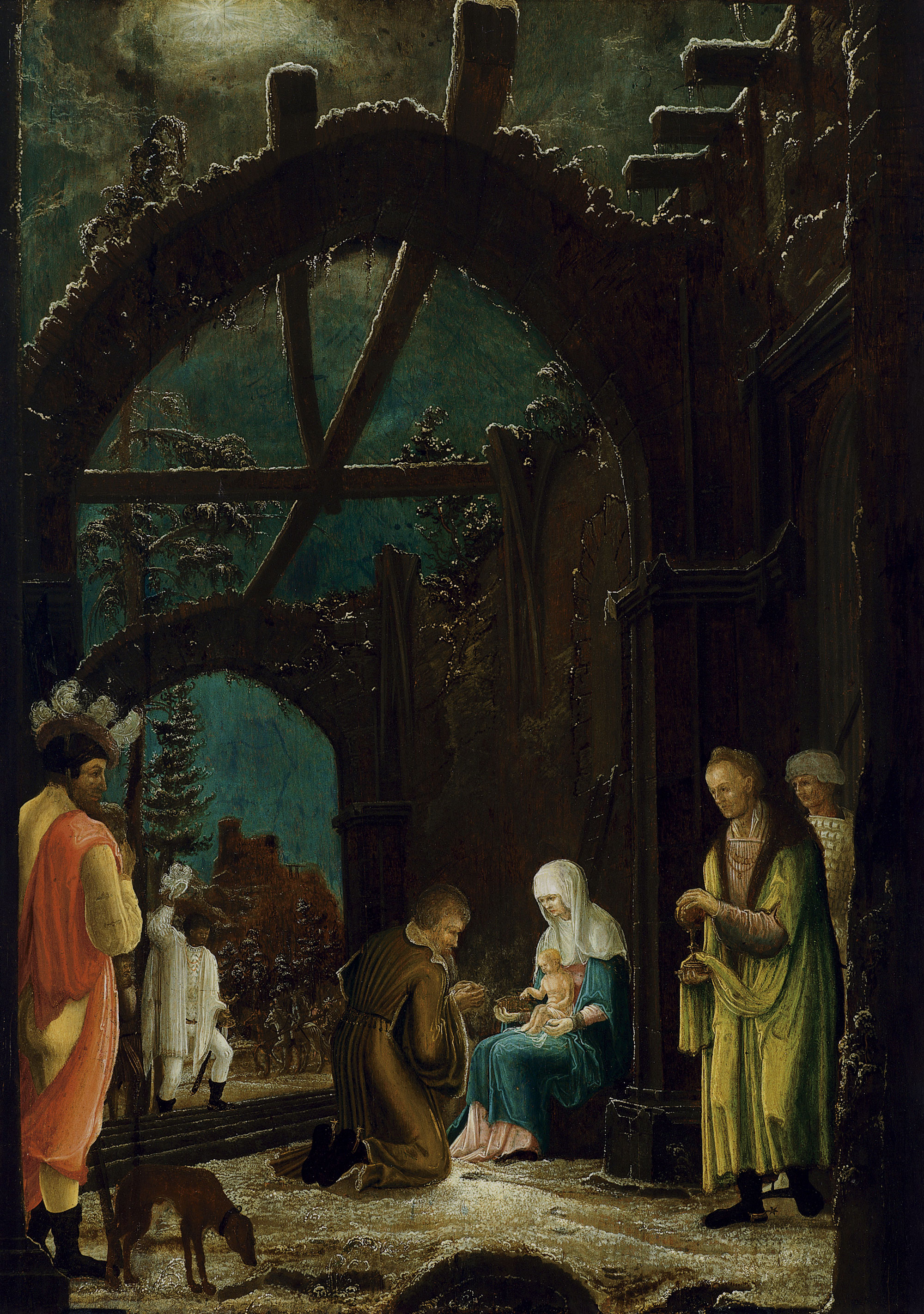 The composition, architecture and particularly the group of the Virgin and Child are inspired by two prints by Wolf Huber from around 1510.